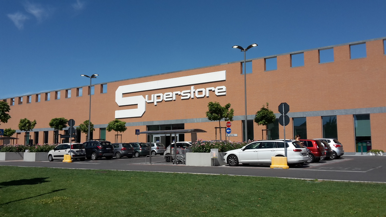 Superstore Esselunga di Cusano Milanino.